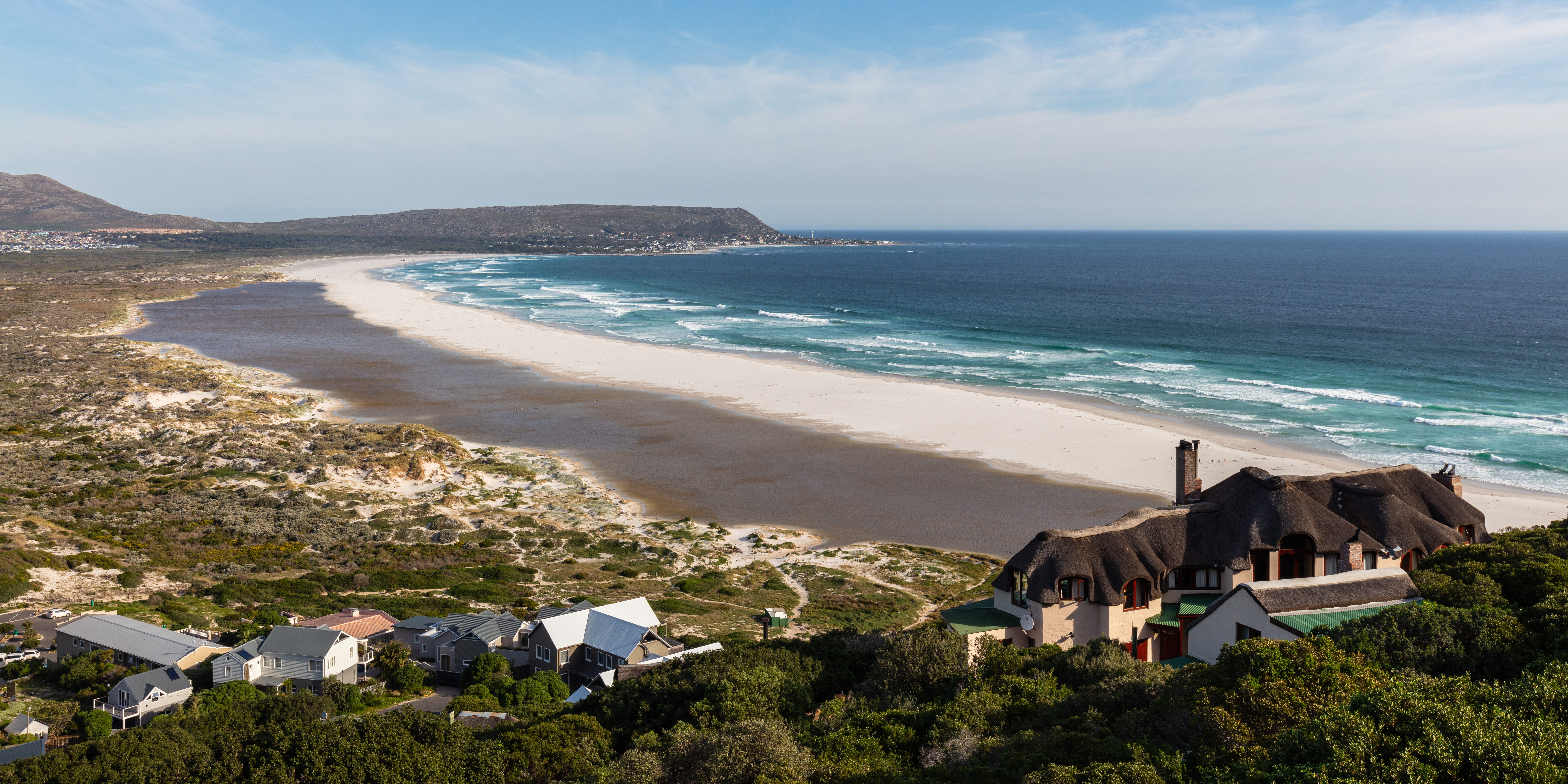 View of Noordhoek Beach from Chapman's Peak Dr, Cape Peninsula, South Africa.